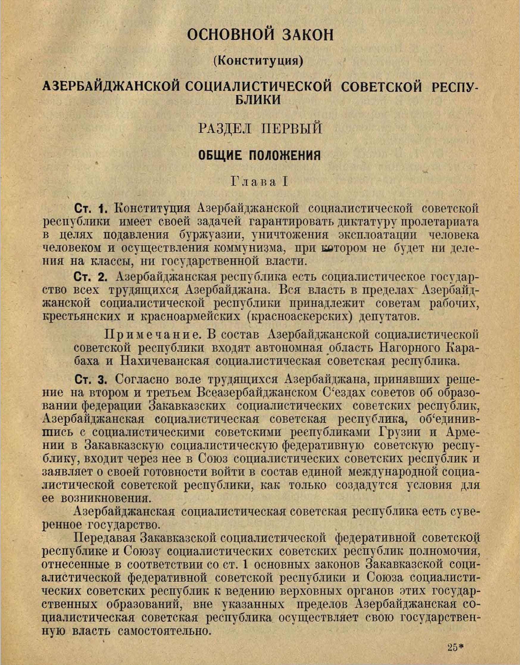 The first page of the 1921 Constitution of the Azerbaijan SSR. Extracted from the book "Советское Государственное Устройство" (The Systsem of the Soviet Government).